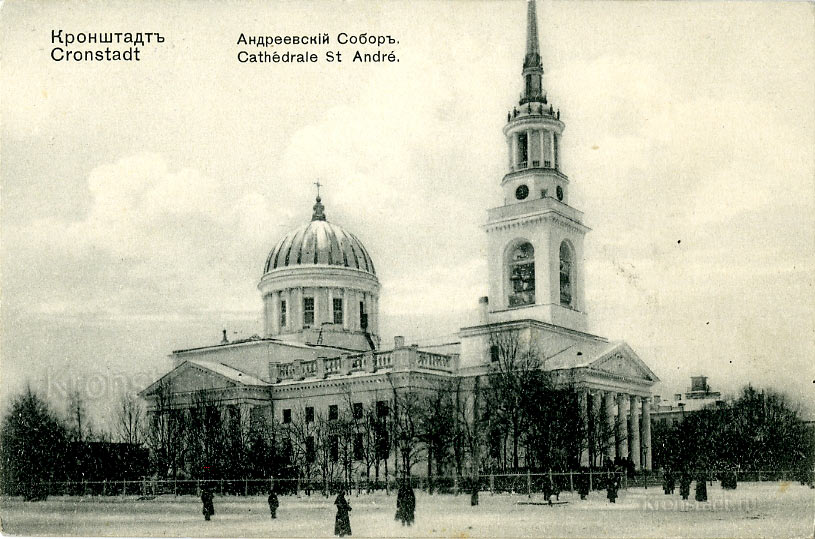 Kronstadt, old Andreevsky Cathedral. 1910s postcard.